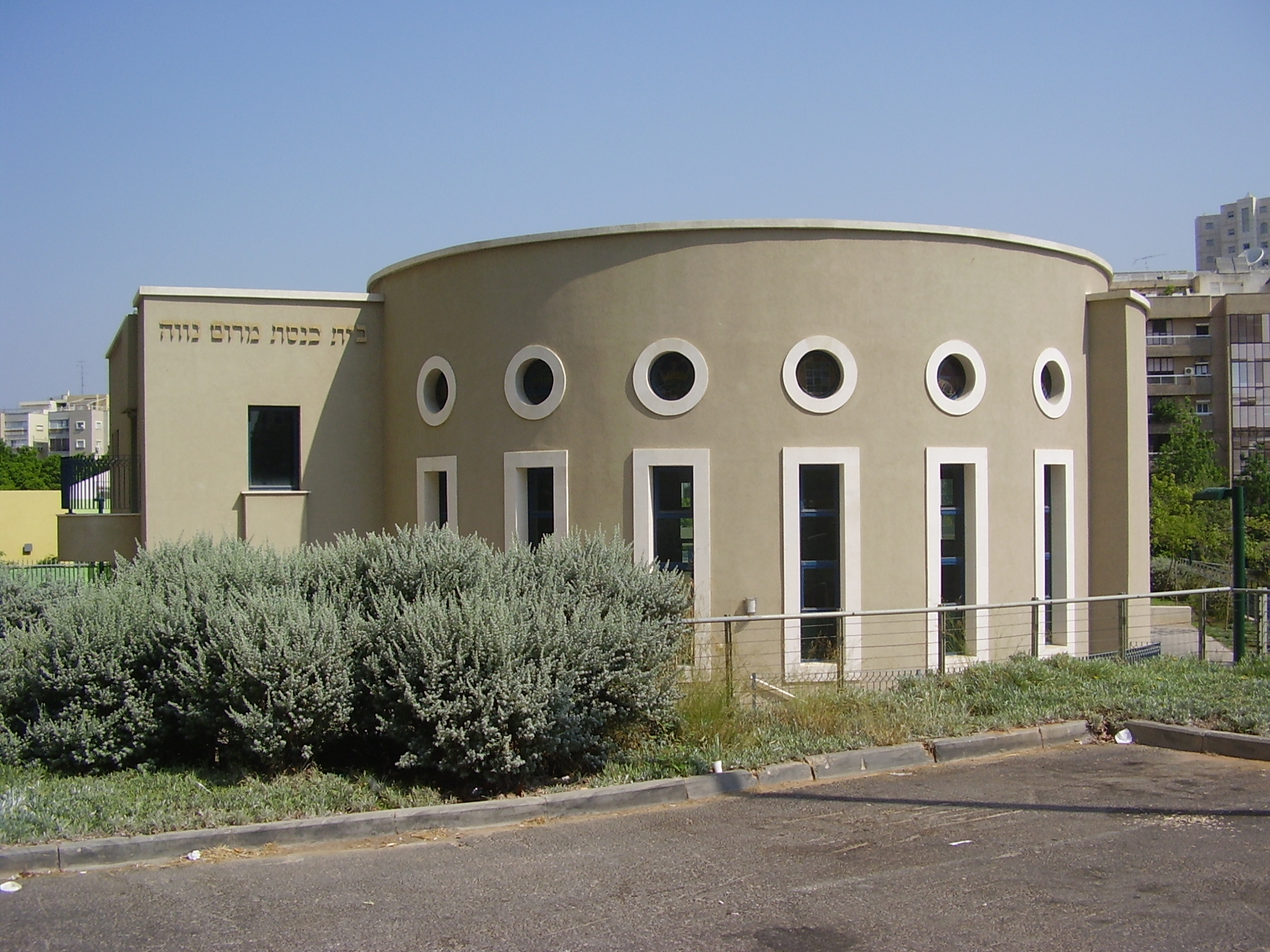 The synagogue in Merom Naveh, Ramat Gan